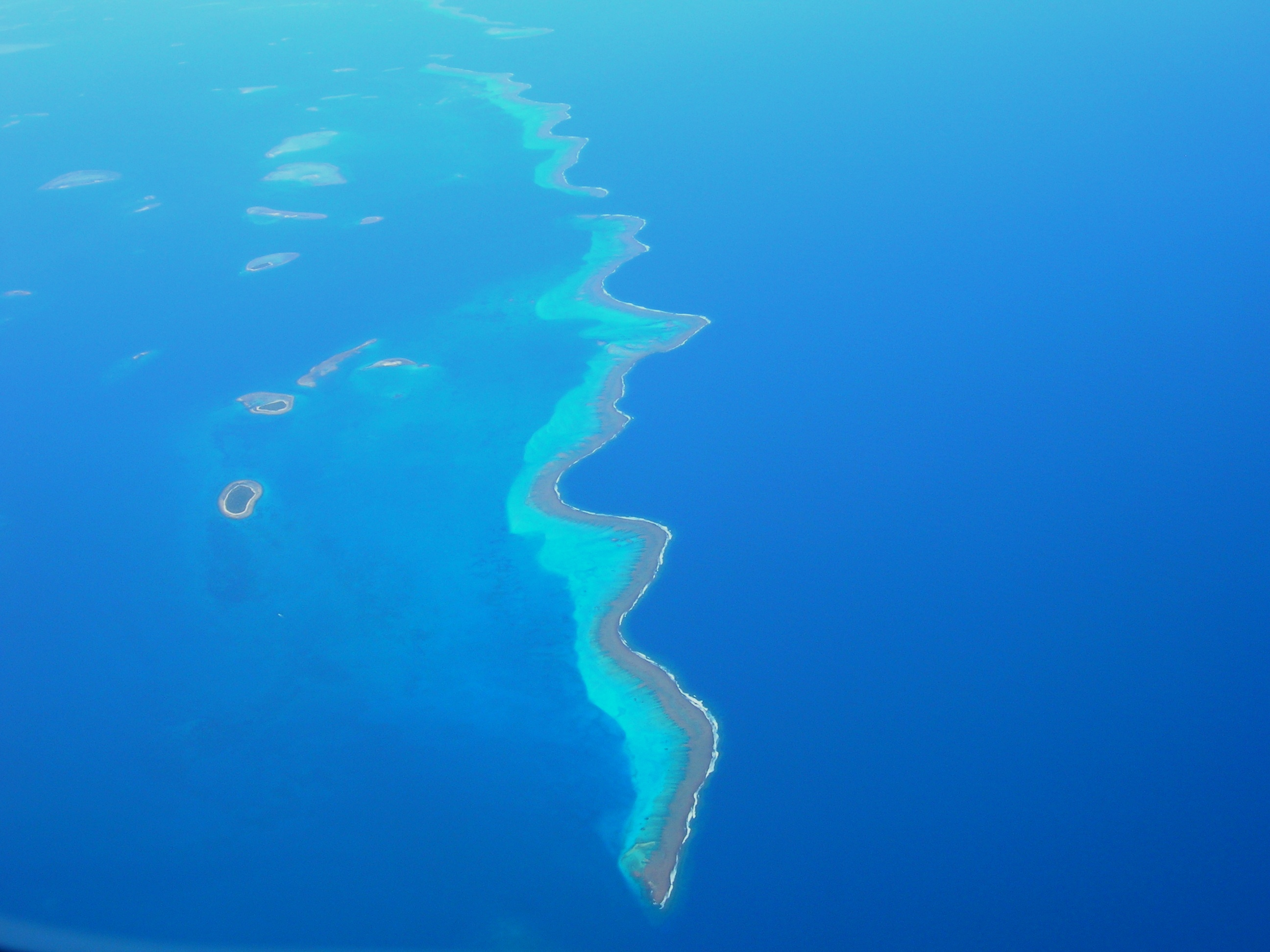 Photo of Numea